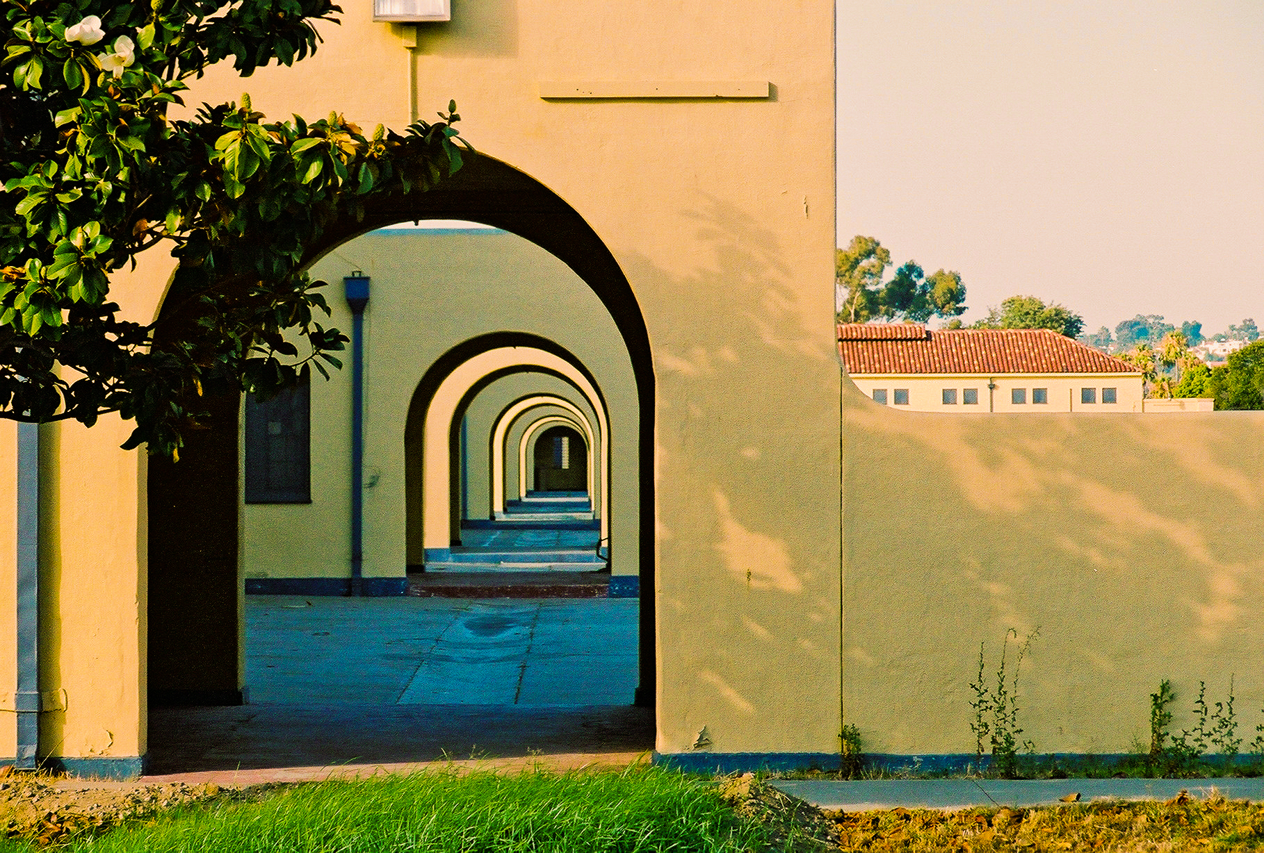 Naval Training Center Photo was taken in 2004